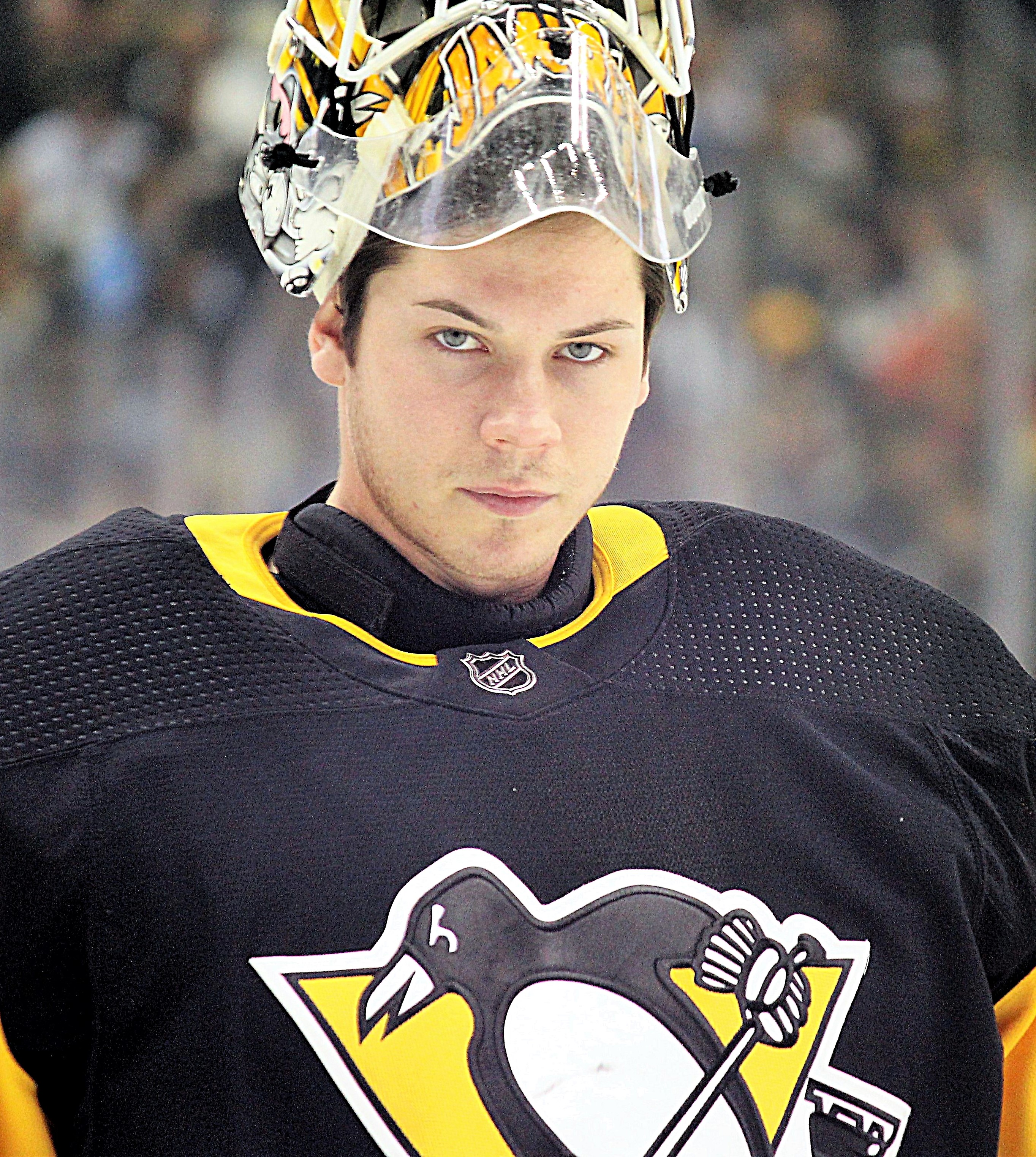 Pittsburgh Penguins goalie Tristan Jarry during a game against the New York Islanders, December 7, 2017, at PPG Paints Arena in Pittsburgh, PA.